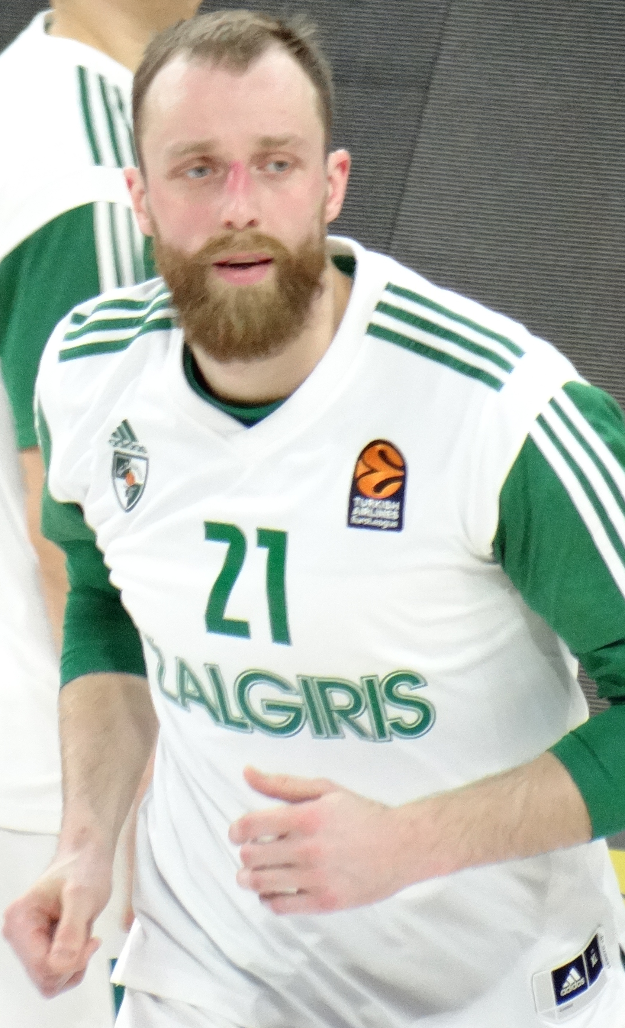 Artūras Milaknis 21 BC Žalgiris EuroLeague 20180223